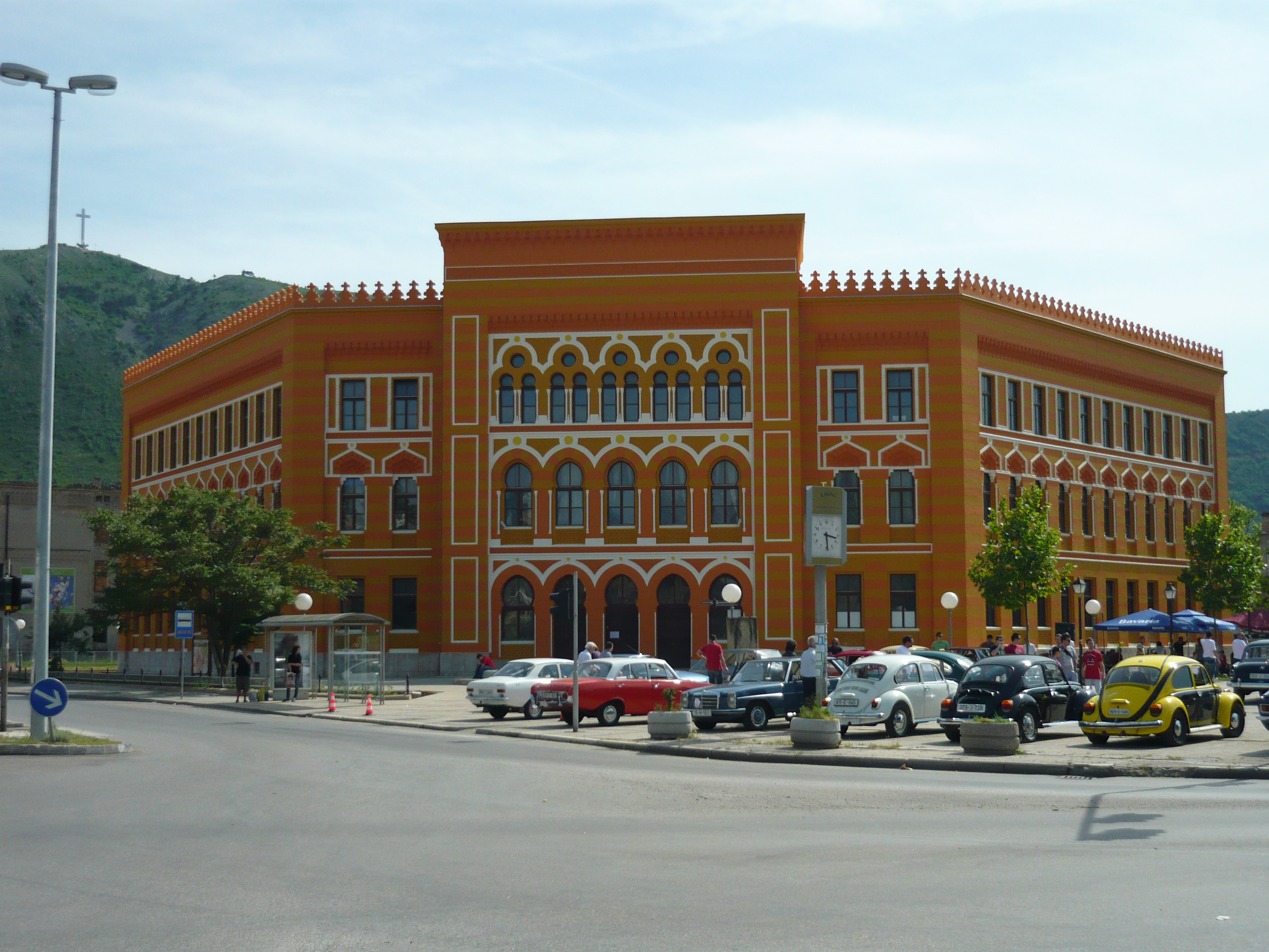 "Gimnazija Mostar" located in Spanish square, Mostar, Bosnia and Herzegovina.